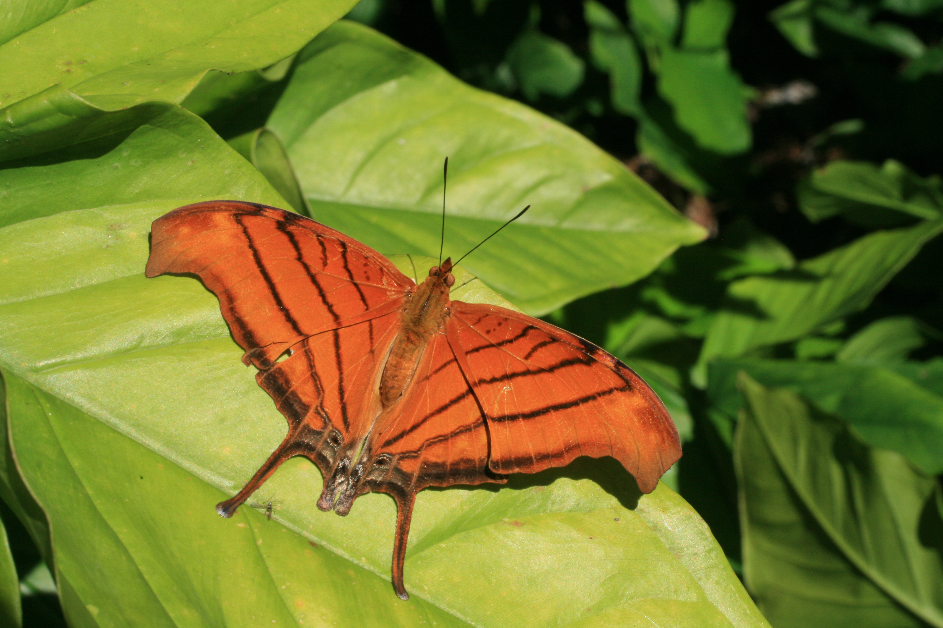 Ruddy daggerwing (Marpesia petreus) seen in Loxahatchee National Wildlife Refuge, Florida.